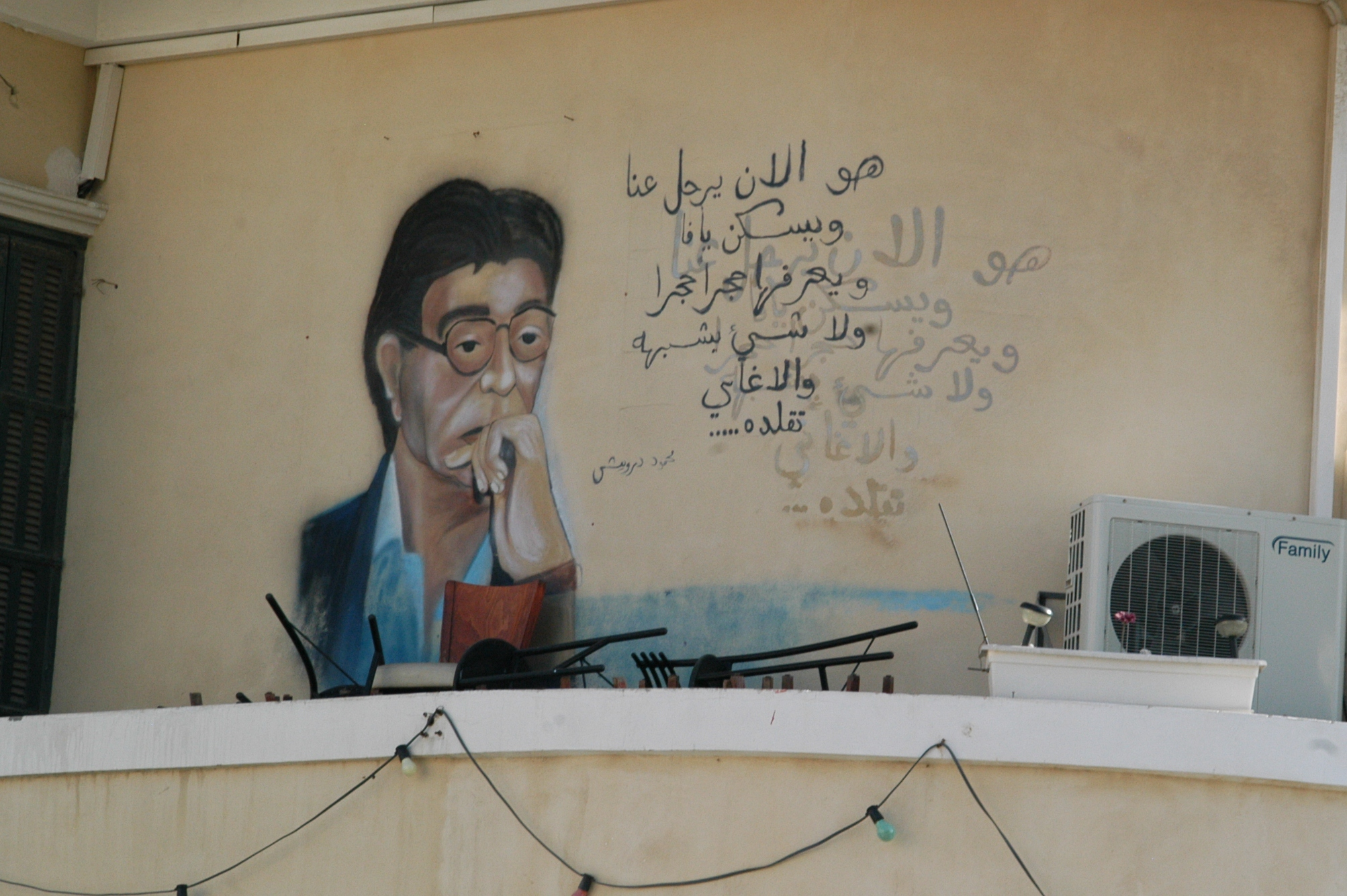 Art of Israel